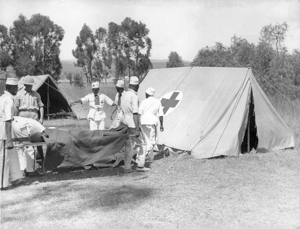 British Red Cross tends wounded in Harar. The first convoy of sixteen lorries sent out by the British Red Cross, went into action immediatly on their arrival in Harar, bringing in and tending Abyssinians wounded and sent back from the front. The convaoy is led by Mr. A. Melly, a young London doctor, and natives of Kenya Colony and Somalis from Berbera accompanied the convoy to act as orderlies. Photo shows a wounded Abyssian soldier being carried into the operating tent.